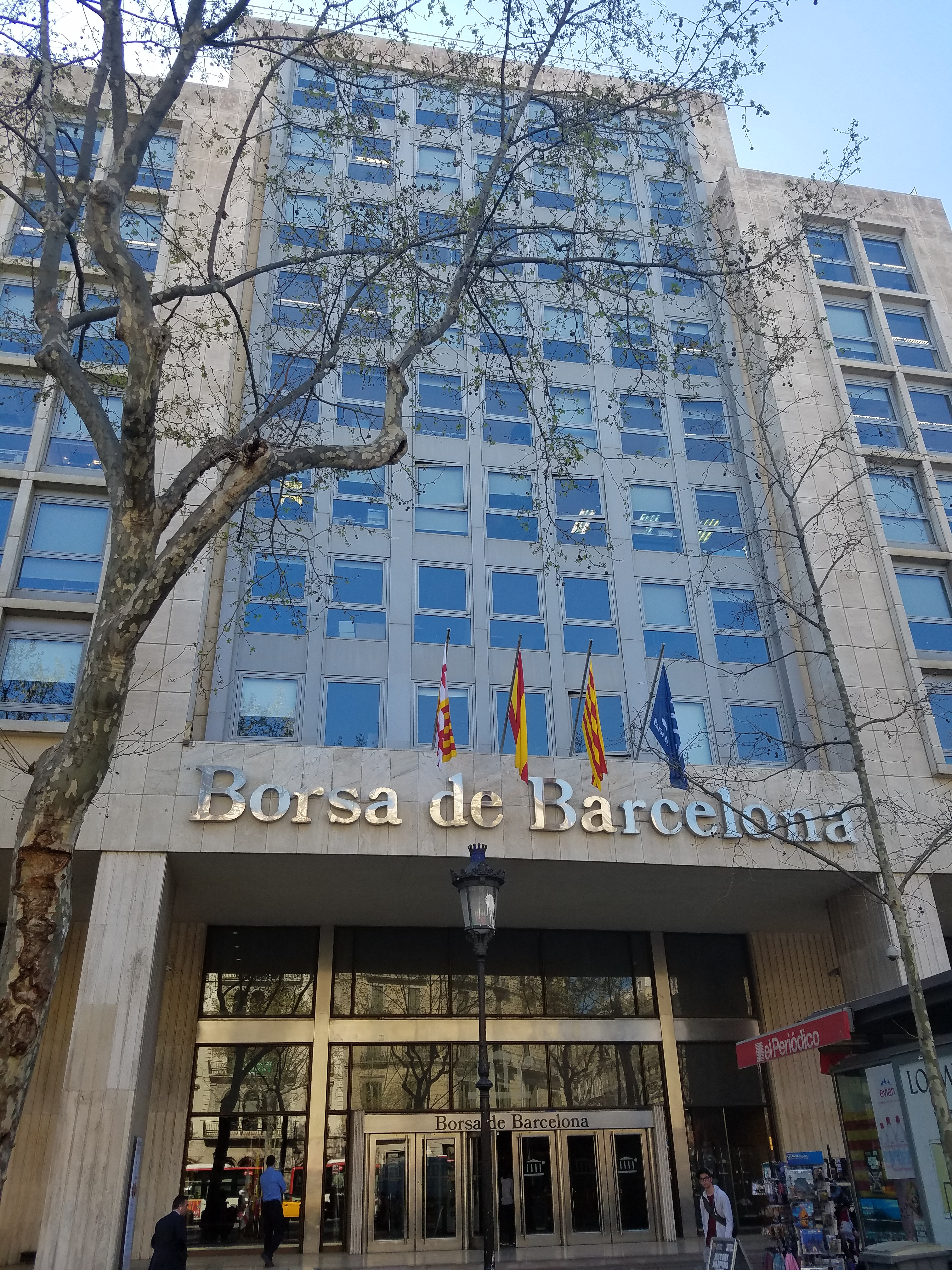 Head of view of the Bolsa de Valores in Barcelona.